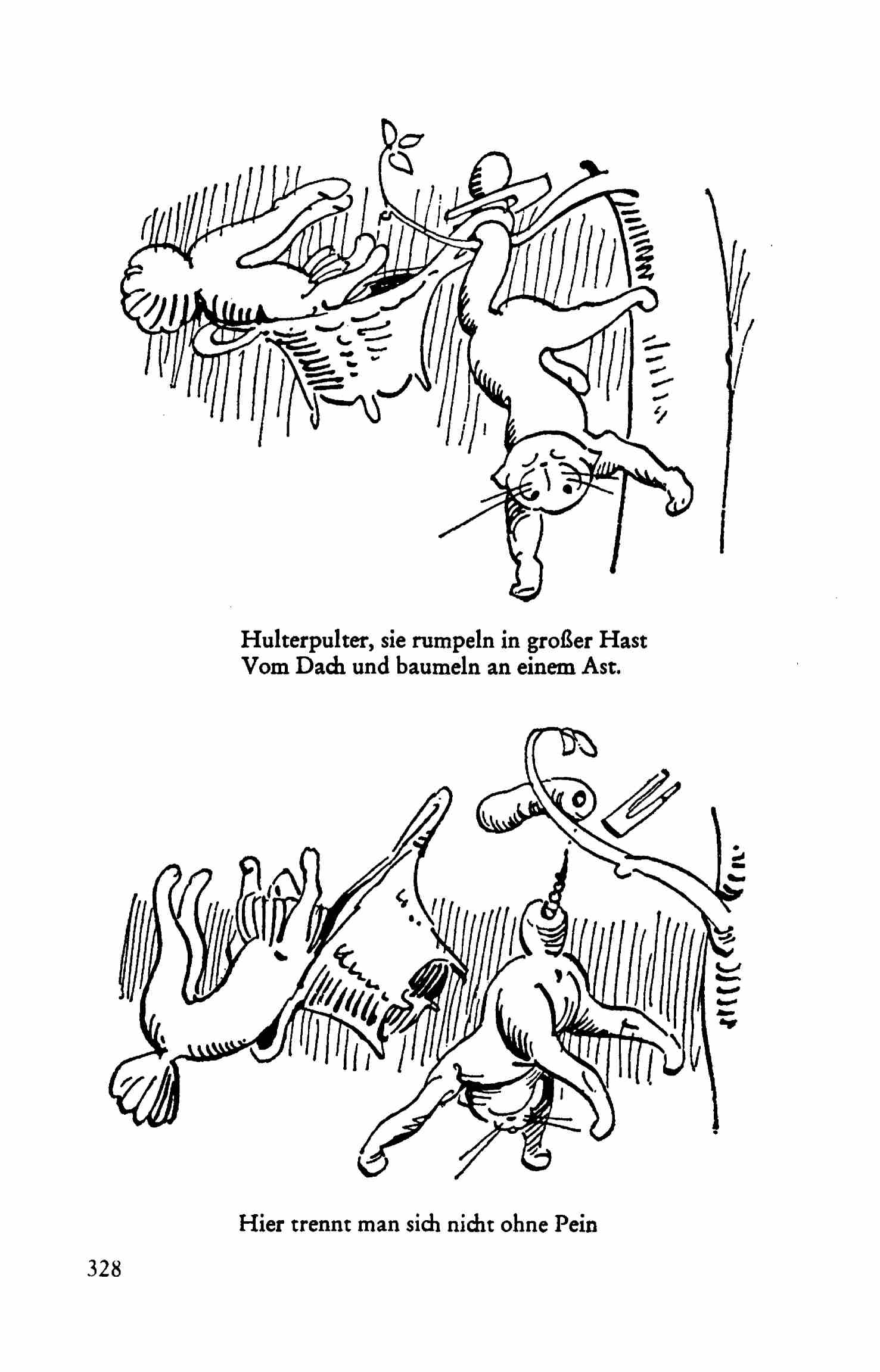 This is a scan of the historical document